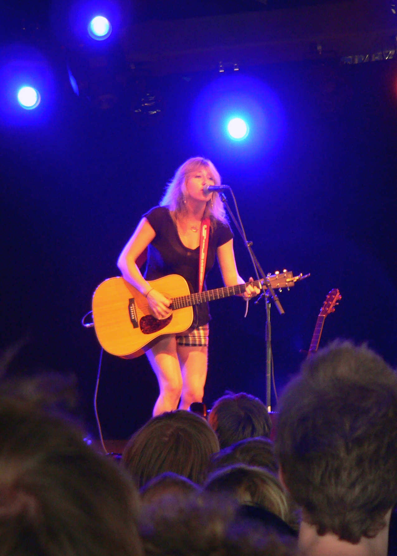 Martha Wainwright